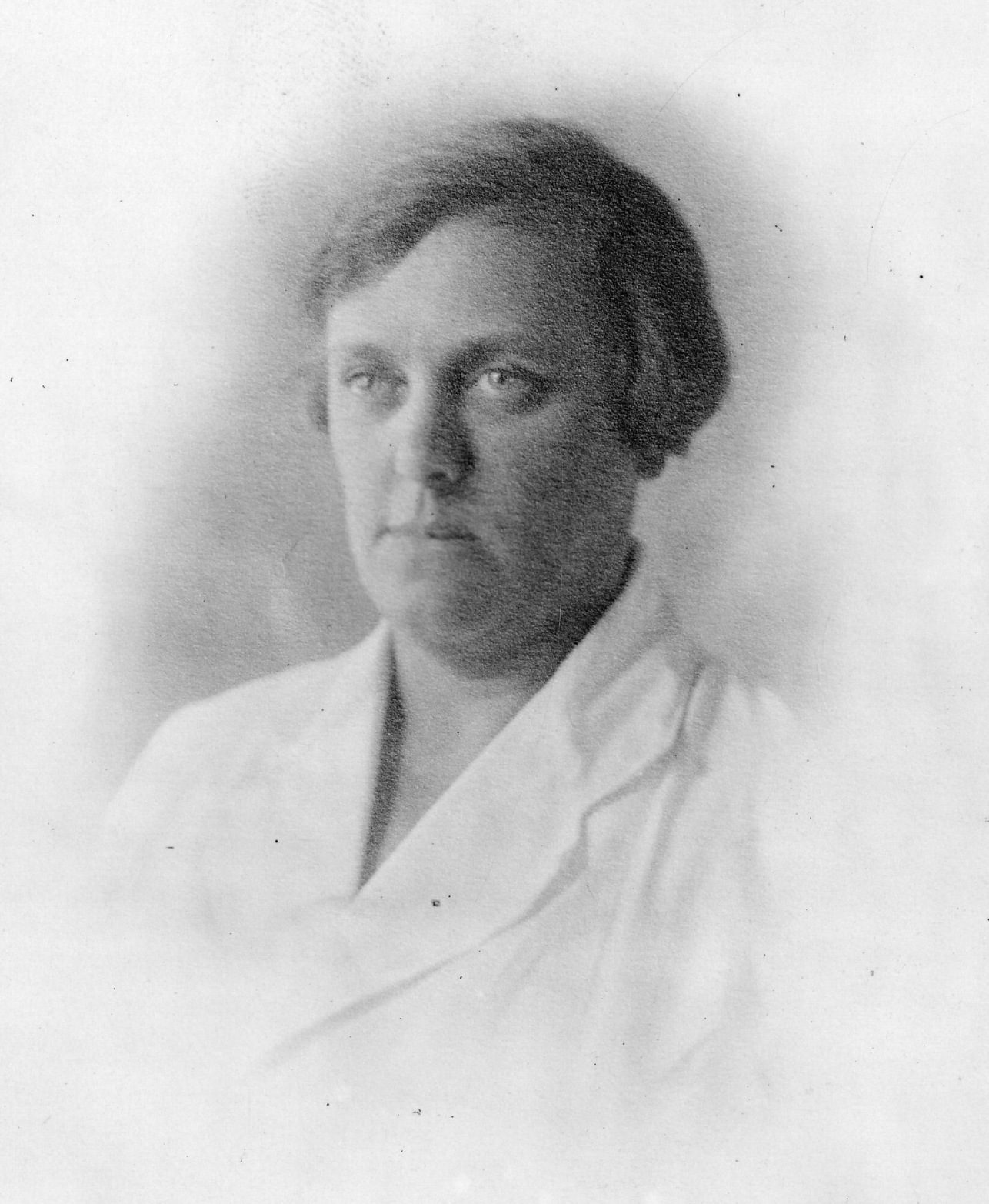 the botanist Ethel Mary Doidge (1887-1965) Born in England, immigrated to South Africa as a child, was educated at the University of the Cape of Good Hope, and became one of the pioneers in South African mycology. Science Service, now the Society for Science & the Public, was a news organization founded in 1921 to promote the dissemination of scientific and technical information. Although initially intended as a news service, Science Service produced an extensive array of news features, radio programs, motion pictures, phonograph records, and demonstration kits and it also engaged in various educational, translation, and research activities.